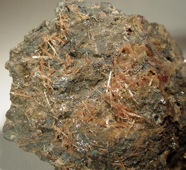 Seamanite Locality: Chicagon mine, Menominee iron range, Iron County, Michigan, USA (Locality at ) Size: miniature, 5 x 4 x 3 cm Seamanite Good specimen of seamanite. It is from the Barlow Collection, and is prominently featured in his book. This piece now resides in Bill Pinch's NEW collection. 5 x 4 x 3 cm